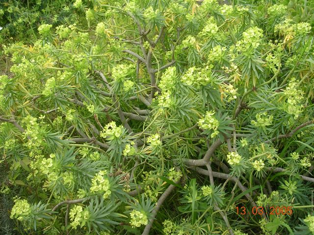 A work released per the GNU Free Documentation License by: FRANCISCA JIMENEZ (Gran Canaria) Spain